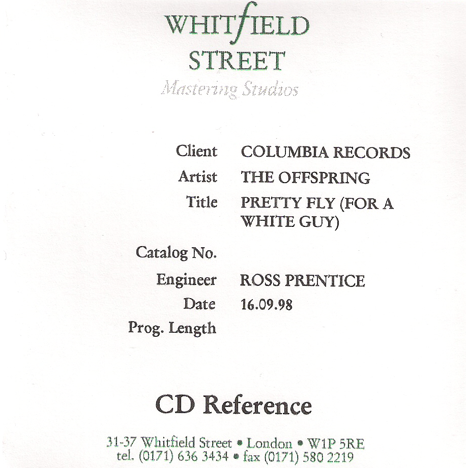 Mastering copy no. 41308 of the song "Pretty Fly (for a White Guy)" by The Offspring.